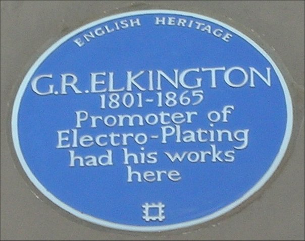 Blue plaque commemorating George Elkington, pioneer of electroplating, in Birmingham, England. Photographed by me 18 September 2006.